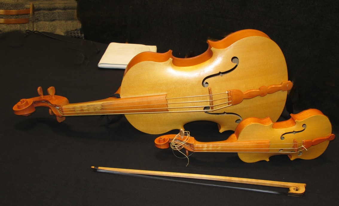 Copy of historical instrument illustrated on the Syntagma musicum by Praetorius, 3 strings "Klein Diskant Geig" and a Tenor-Viola